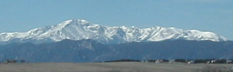 Pikes Peak from the east. Copyright © 2002 User:Tim Chambers. Category:Images of Colorado